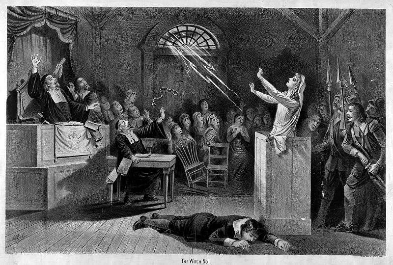 "The Witch, No. 1"